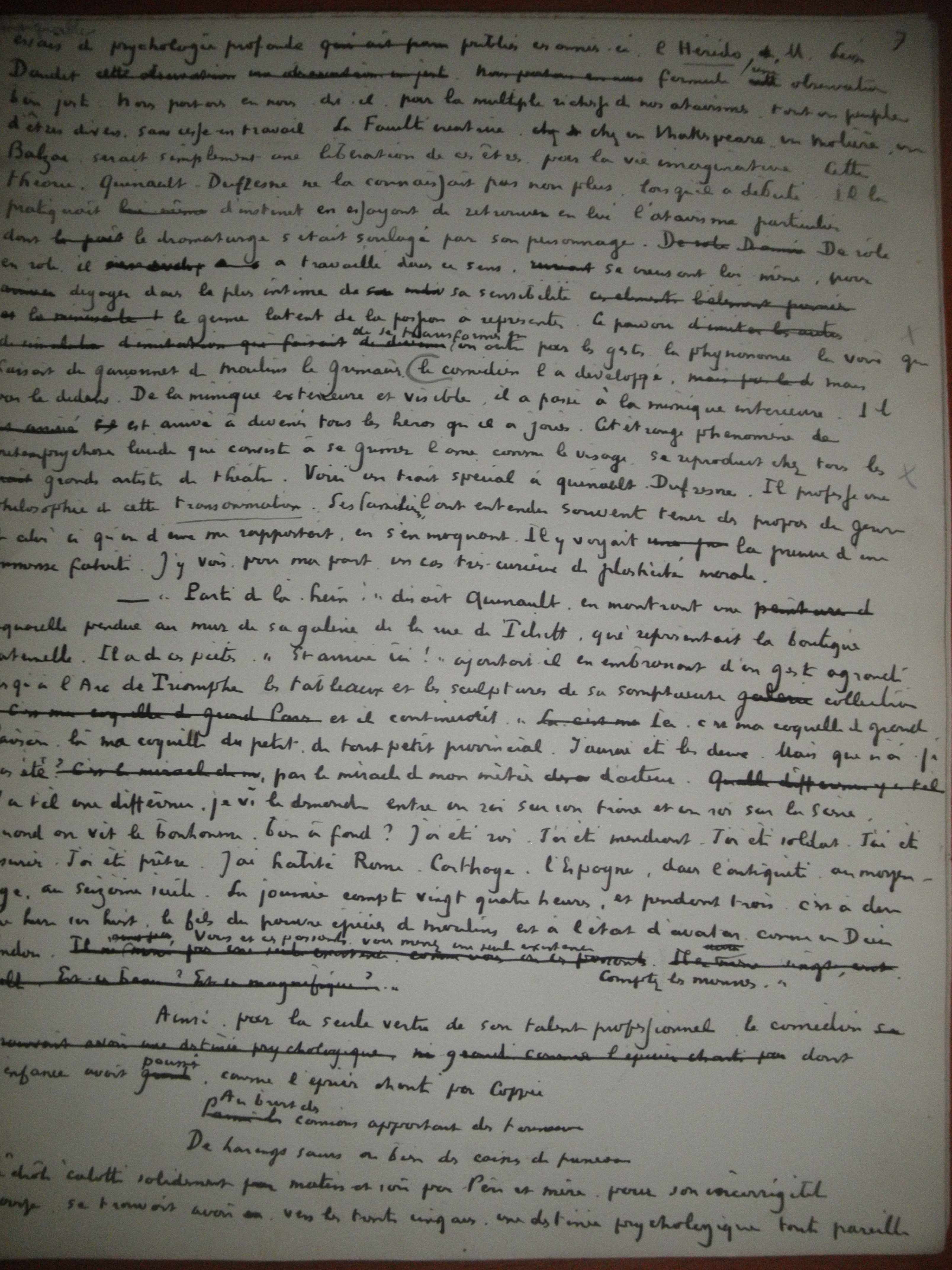 beau rôle 7